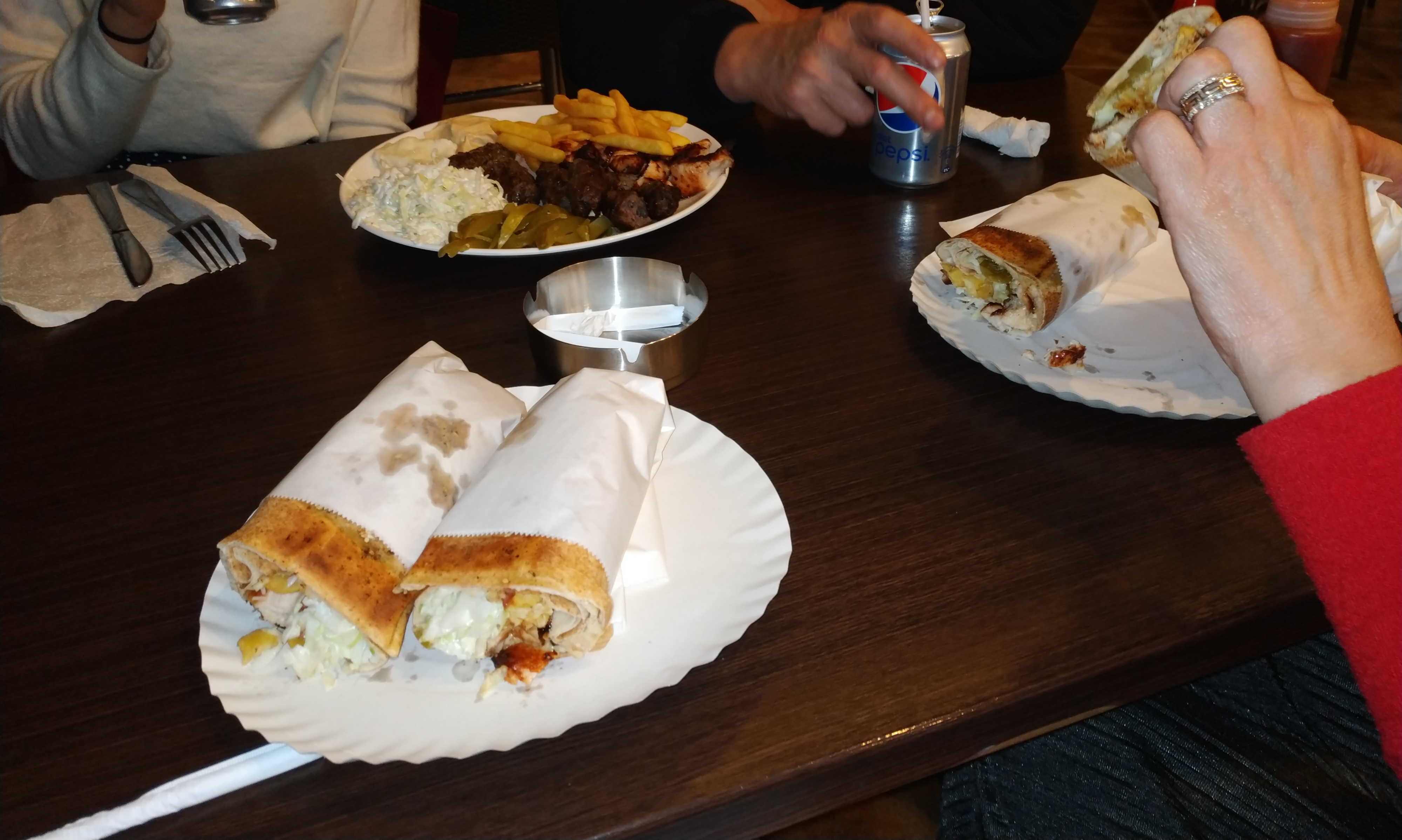 A typical restaurant serving local and fast food at night